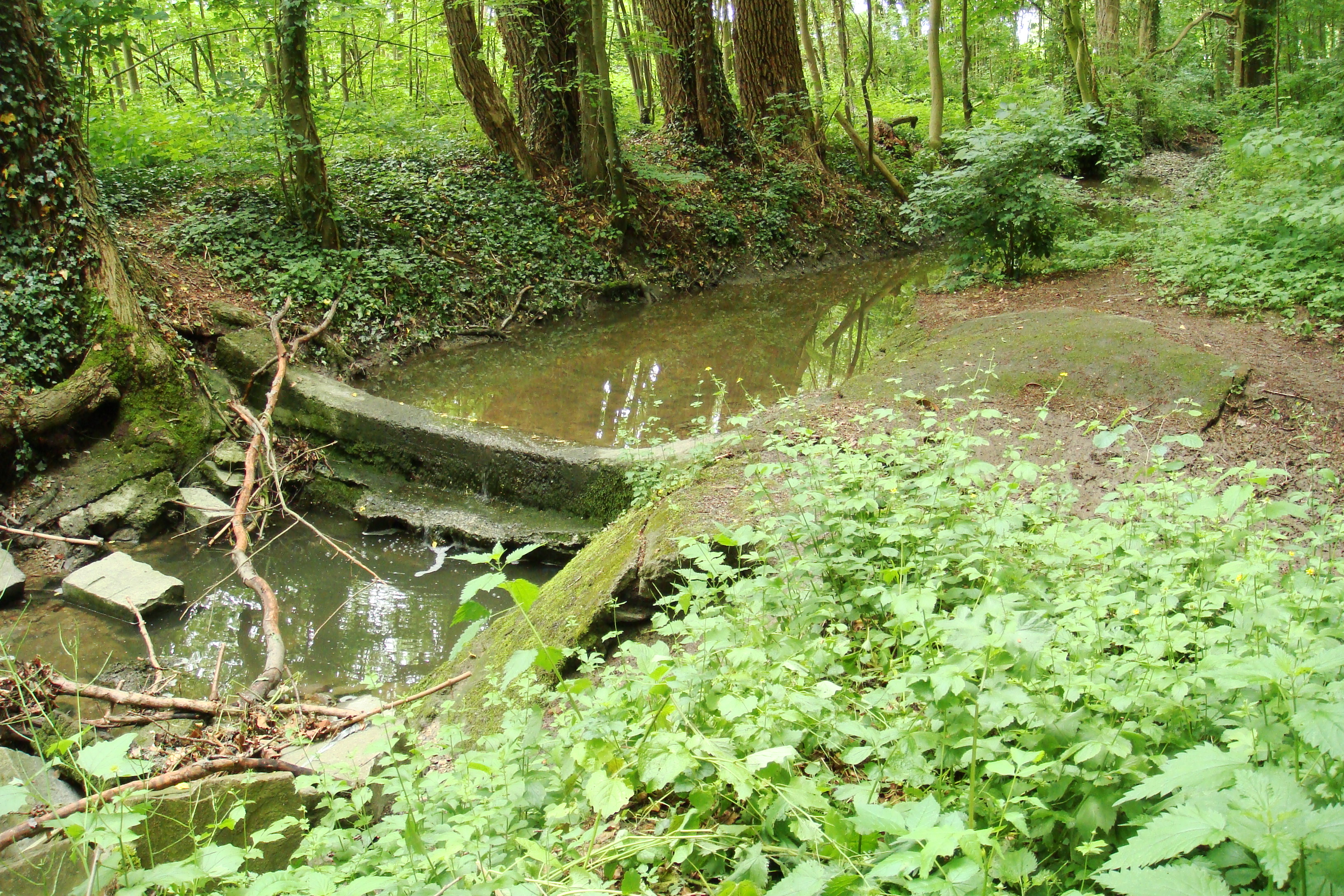 River Schledde at Stadtpark, Soest. The dam is part of the southern section of the river, that is falling dry during summer exept heavy rain is falling and the earth can't absorb all that water. Third photo in a row of three, showing the condition one day after the mid sized thunder storm.